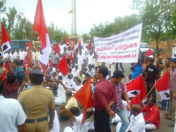 காவிரி நீரைத் தடுக்கும் கர்நாடகத்திற்கு தமிழகத்திலிருந்து மின்சாரம் செல்லக் கூடாதென வலியுறுத்தி நெய்வேலி அனல் மின்நிலையத் தலைமையகத்தை தமிழ்த் தேசப் பொதுவுடைமைக் கட்சி தோழர்கள் முற்றுகையிட்டனர். 300க்கும் மேற்பட்டோர் கைது(10.08.2012).